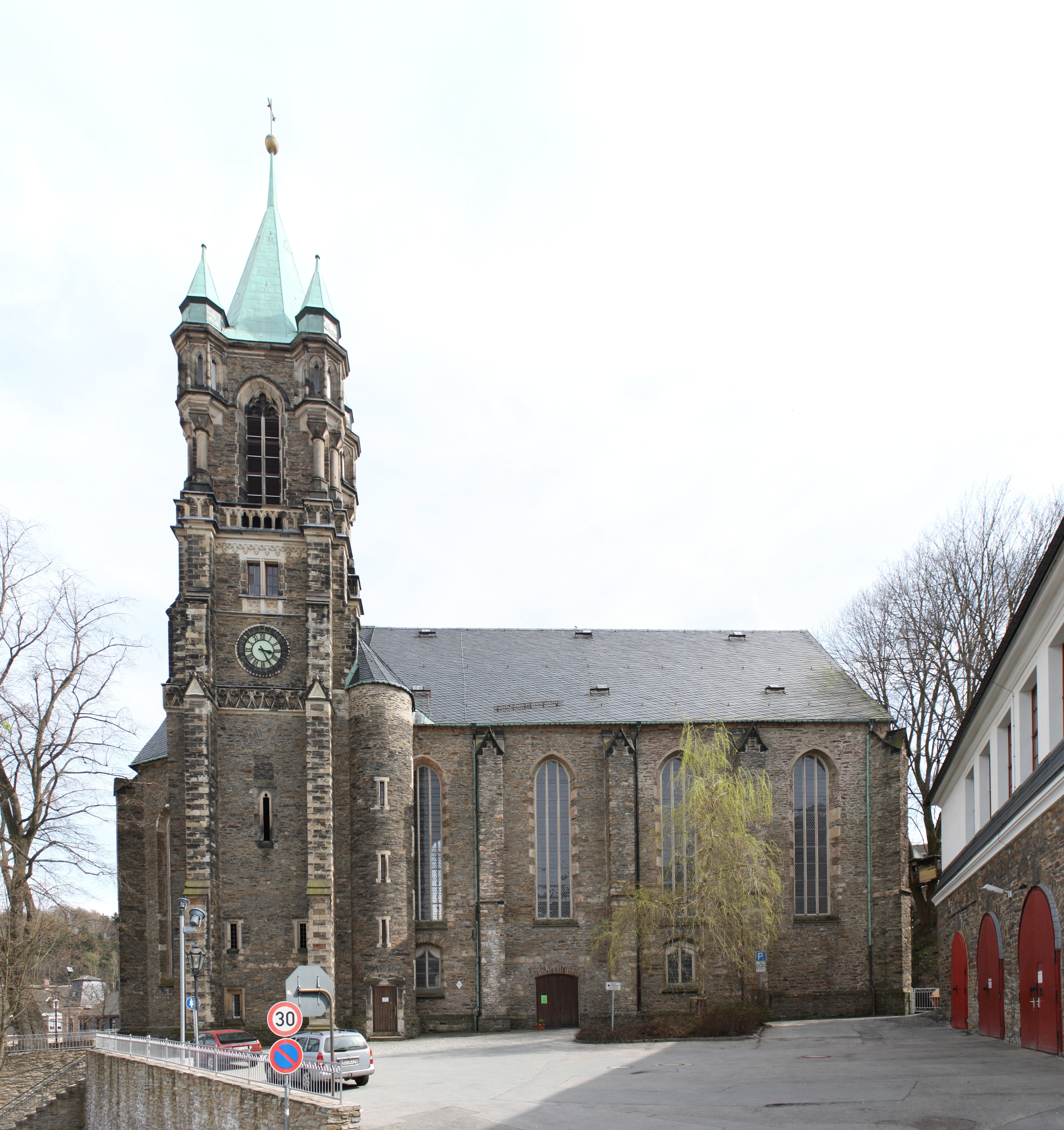 St. Katharinen Buchholz